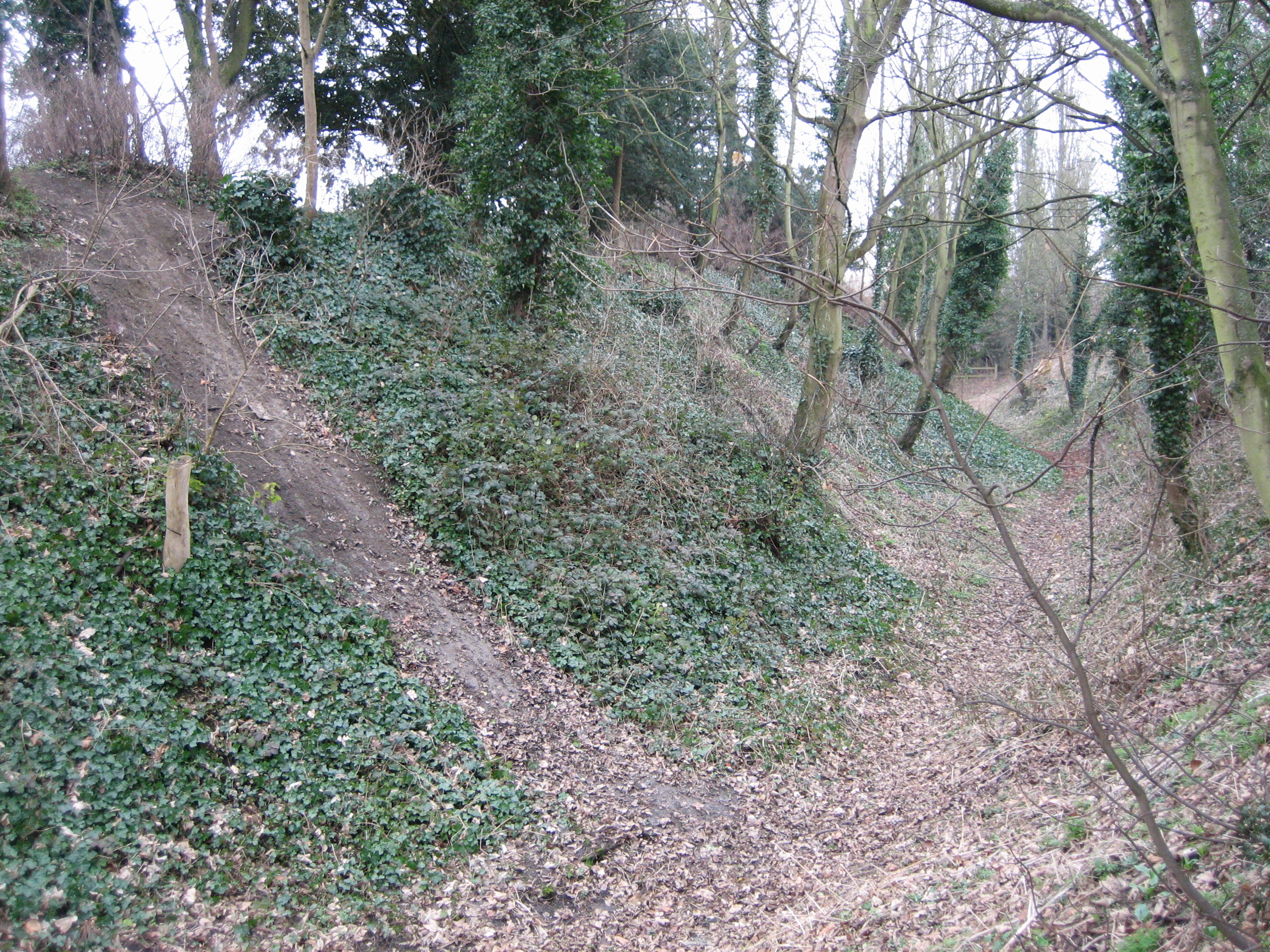 David Hemming